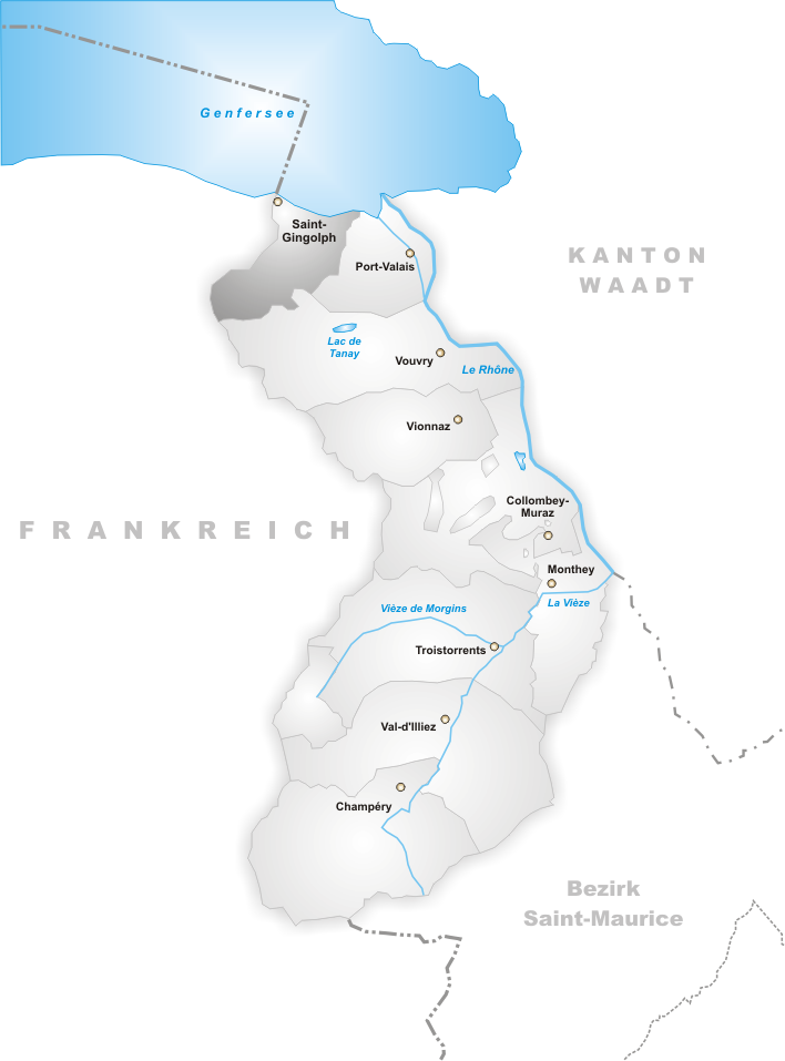 Municipality Saint-Gingolph